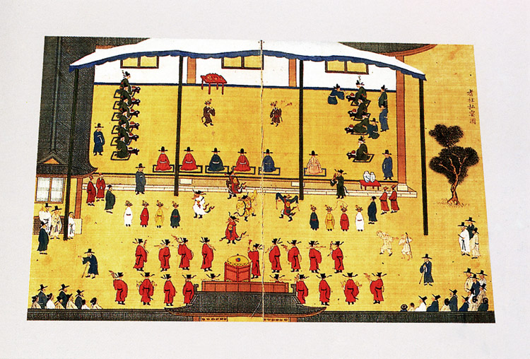 Gisa gyecheop, Korea